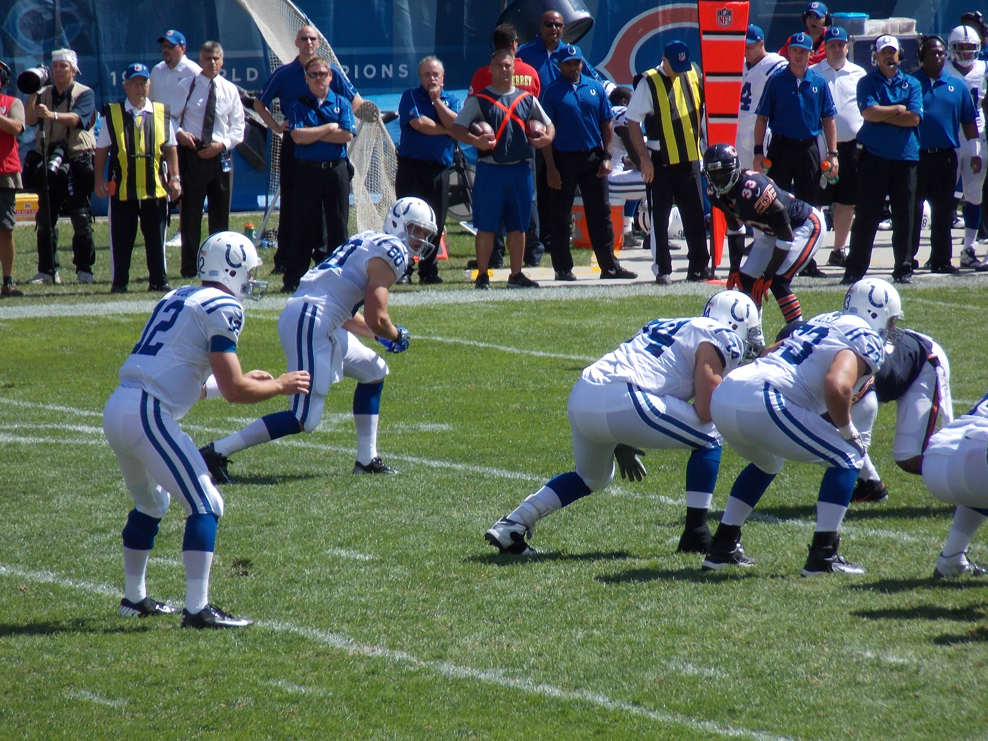 The Chicago Bears vs the Indianapolis Colts on September 9, 2012.